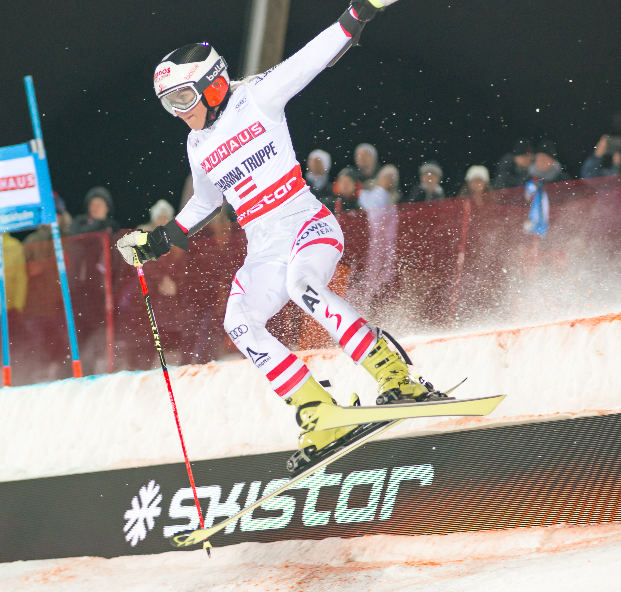 Pose of Katharina Truppe Photo by Roland Osbeck